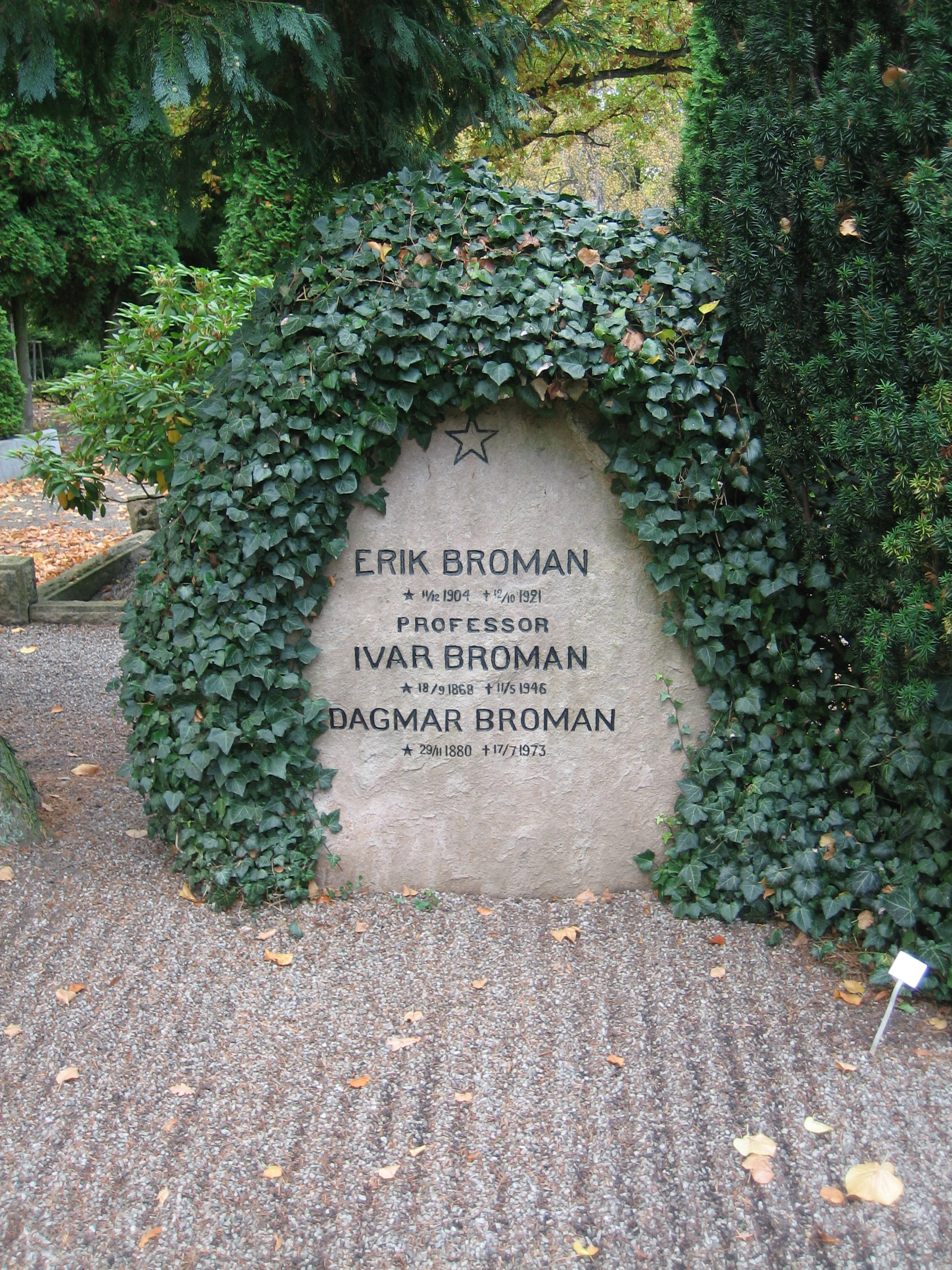 Grave of swedish professor Ivar Broman (1868-1946). Photo taken at Norra kyrkogården, Lund, Sweden 081008 by the uploader.